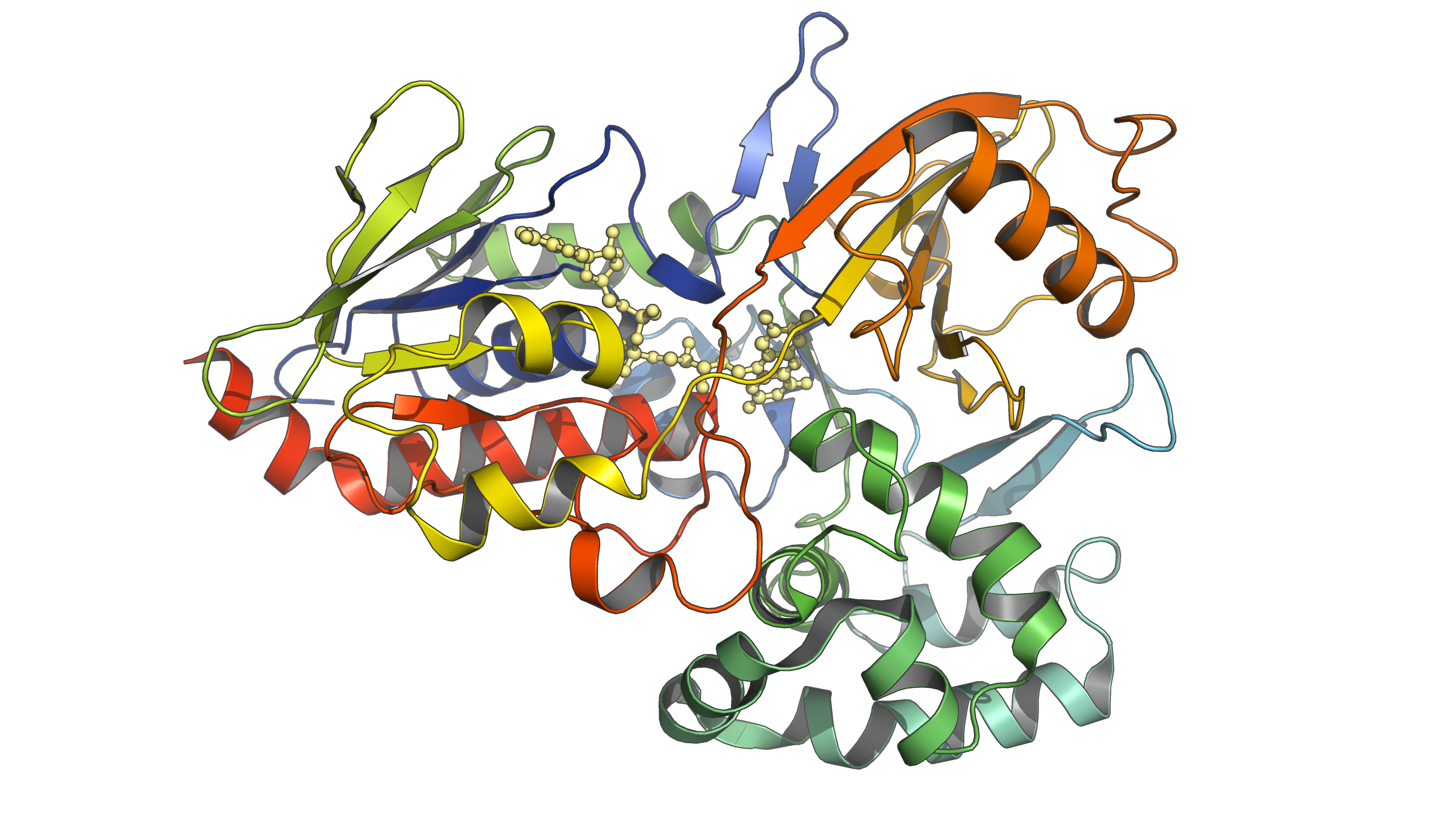 Cartoon representation of the crystal structure of the enzyme phytoene desaturase from rice (Oryza sativa). Colored from blue (N-terminus) to red (C-terminus), the FAD cofactor is shown as a ball and stick model in yellow. PDB: 5MOG​. Corresponding paper